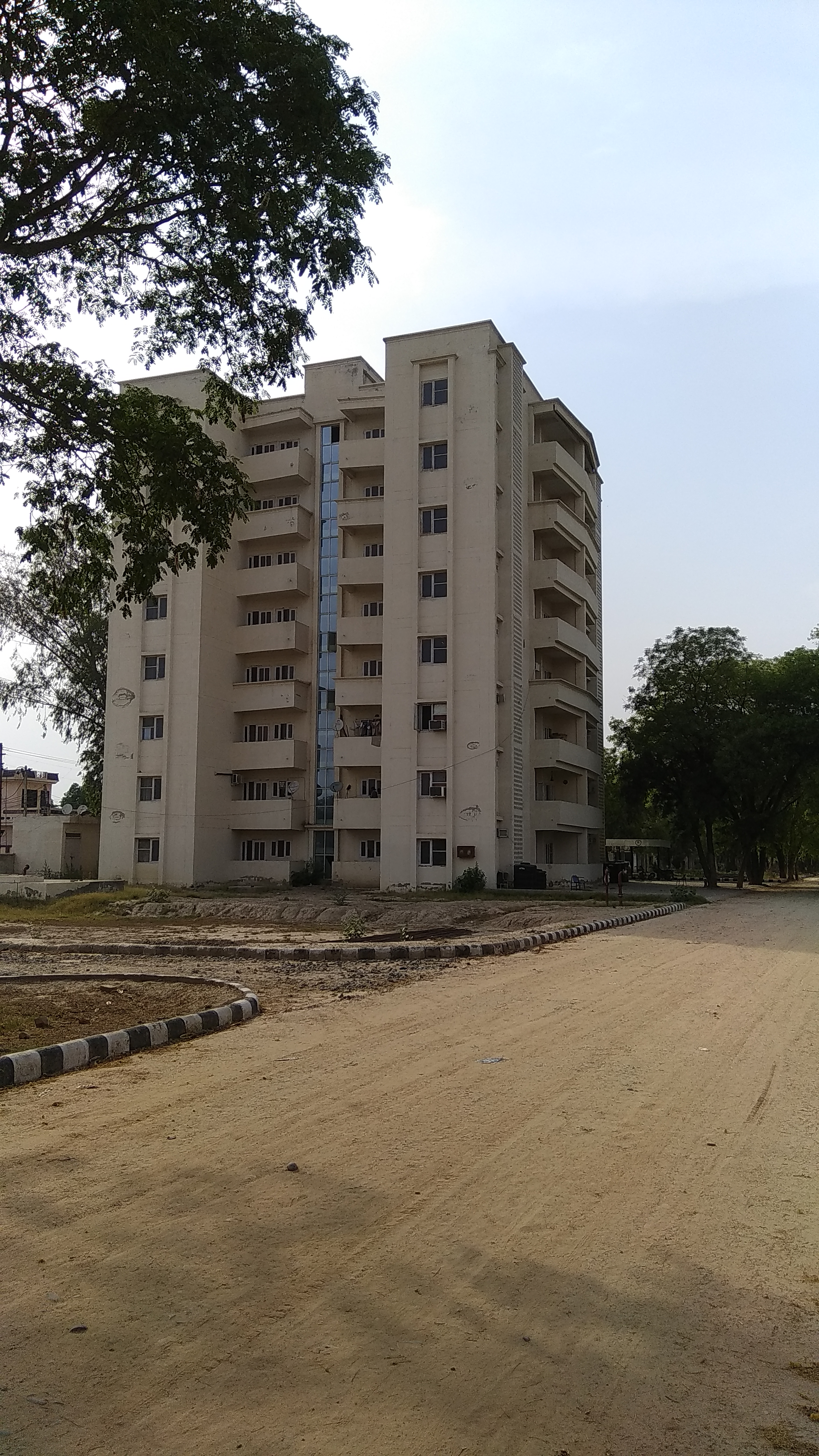 8-storey faculty apartments having total 32 flats